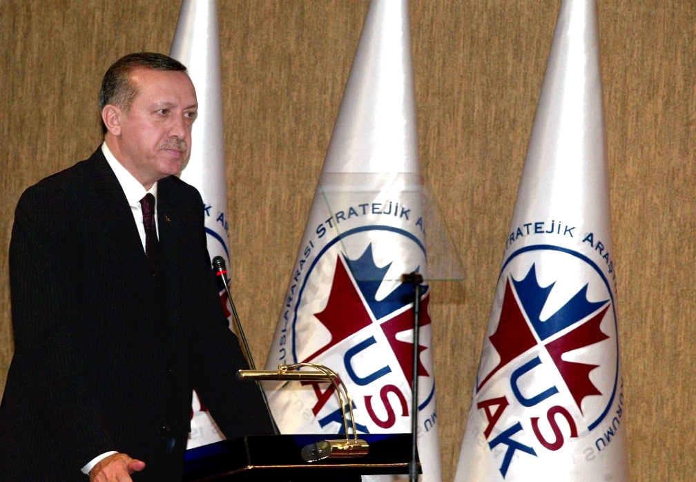 Turkish Prime Minister Recep Tayyip Erdogan gives speech at USAK, 3 February 2010